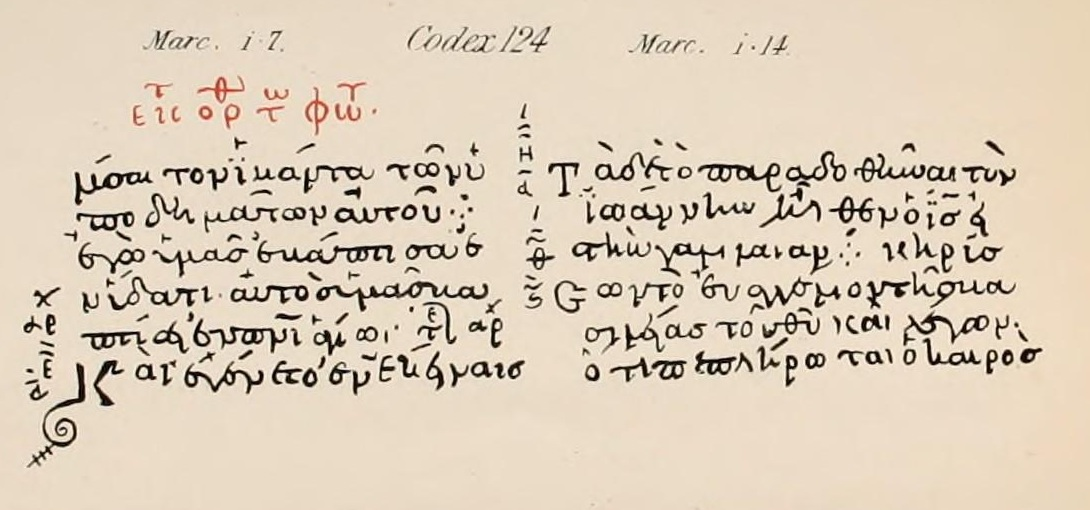 Abbot's facsimile from 1877 with the text of Mark 1:7.14